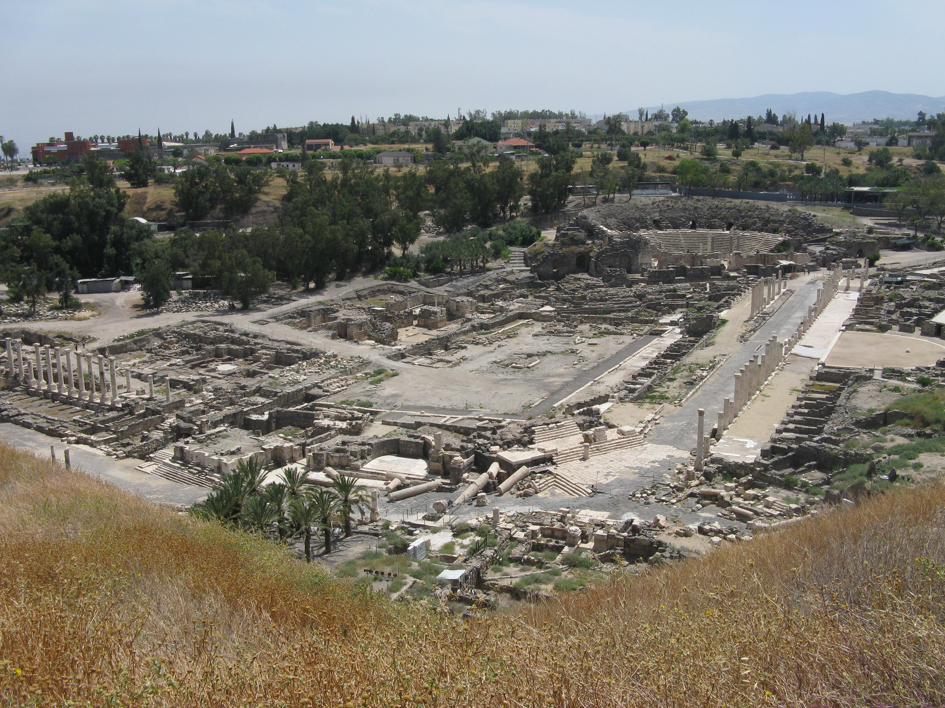 The ancient Scythopolis. View from the hill.